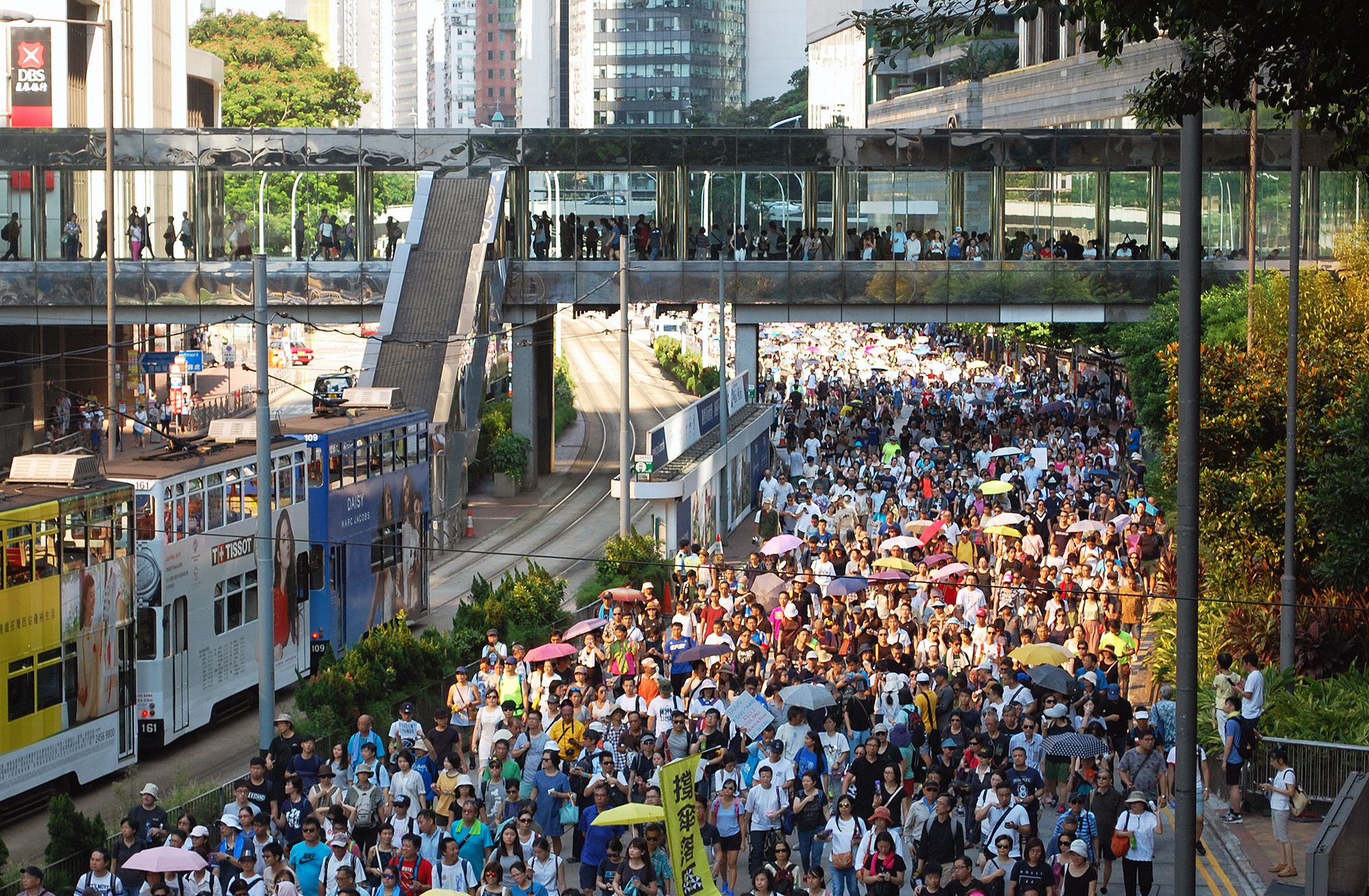 A march held on 20 August 2017 in support of jailed pro-democracy activists. The march walked from Southorn Playground to the Court of Final Appeal. Photo taken from the footbridge outside the High Court.